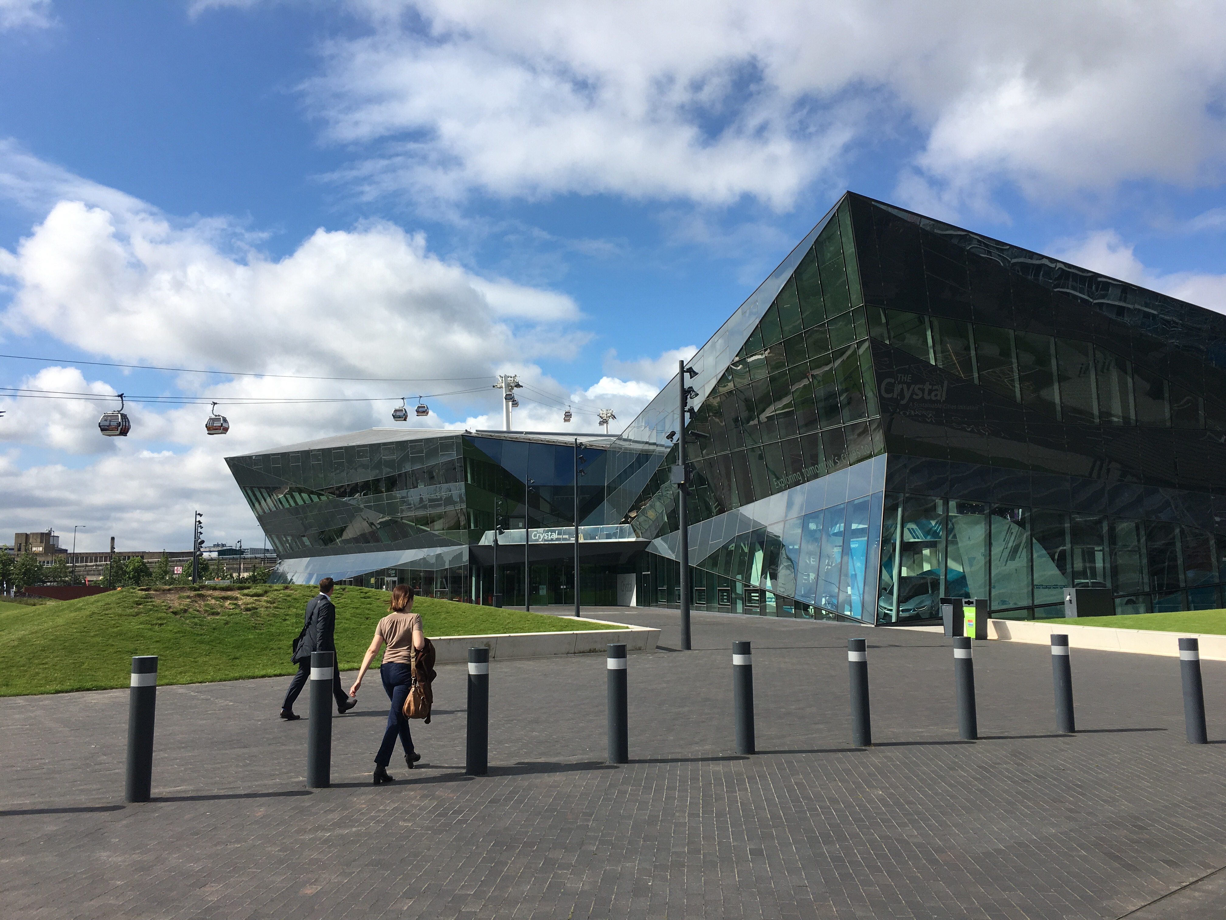 The crystal